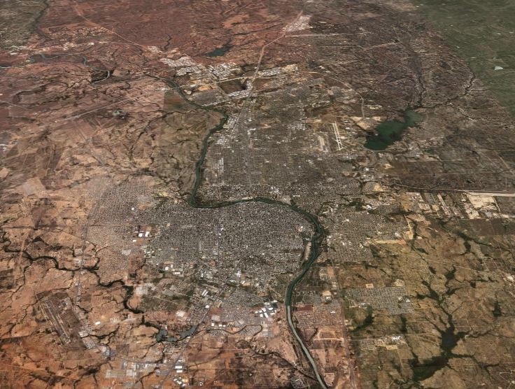 Laredo-Nuevo Laredo Metropolitan Area (boundary Mexico-United States)